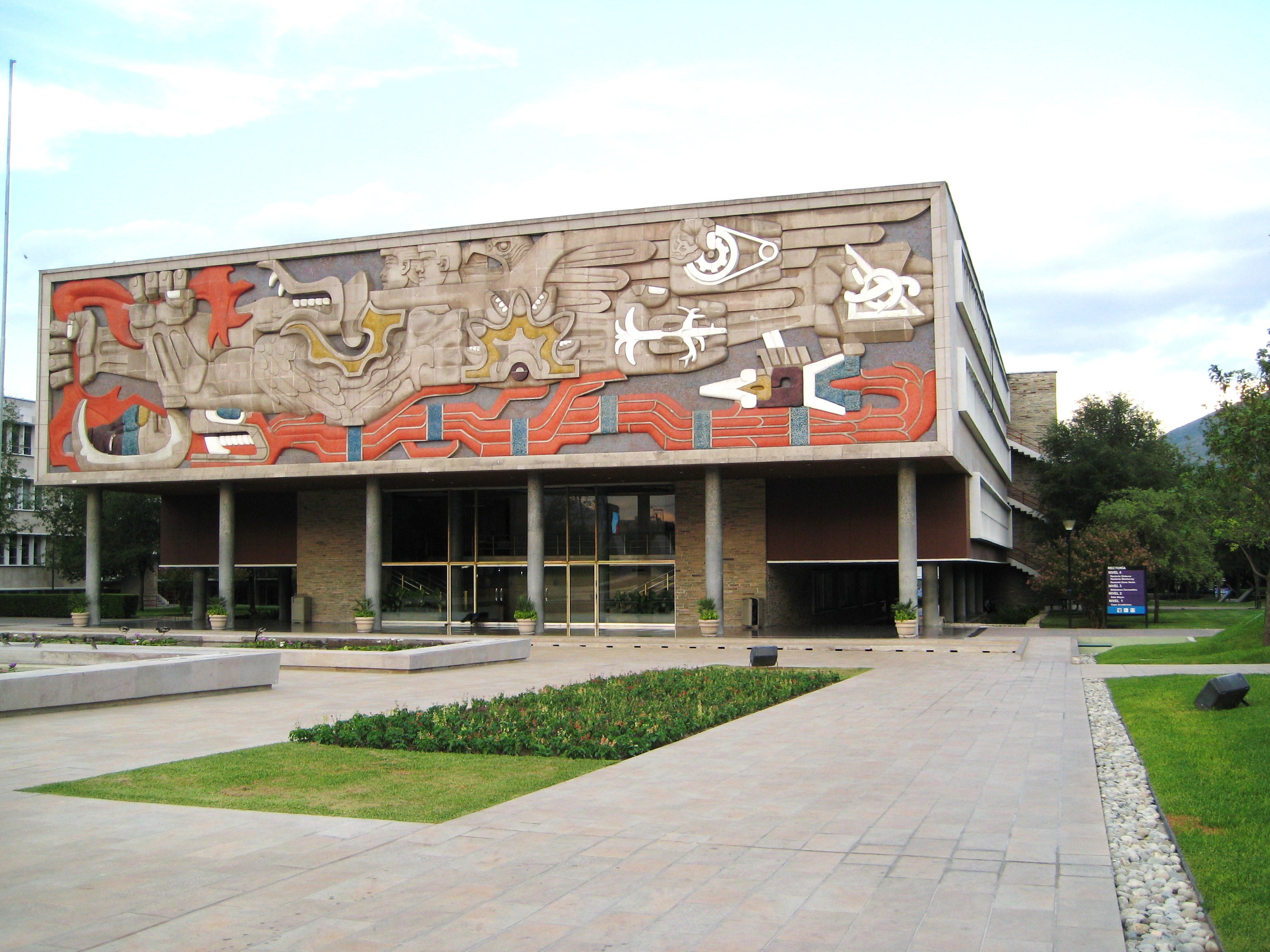 The rectorate building of the Monterrey Institute of Technology and Higher Education in Monterrey, Nuevo León, México.